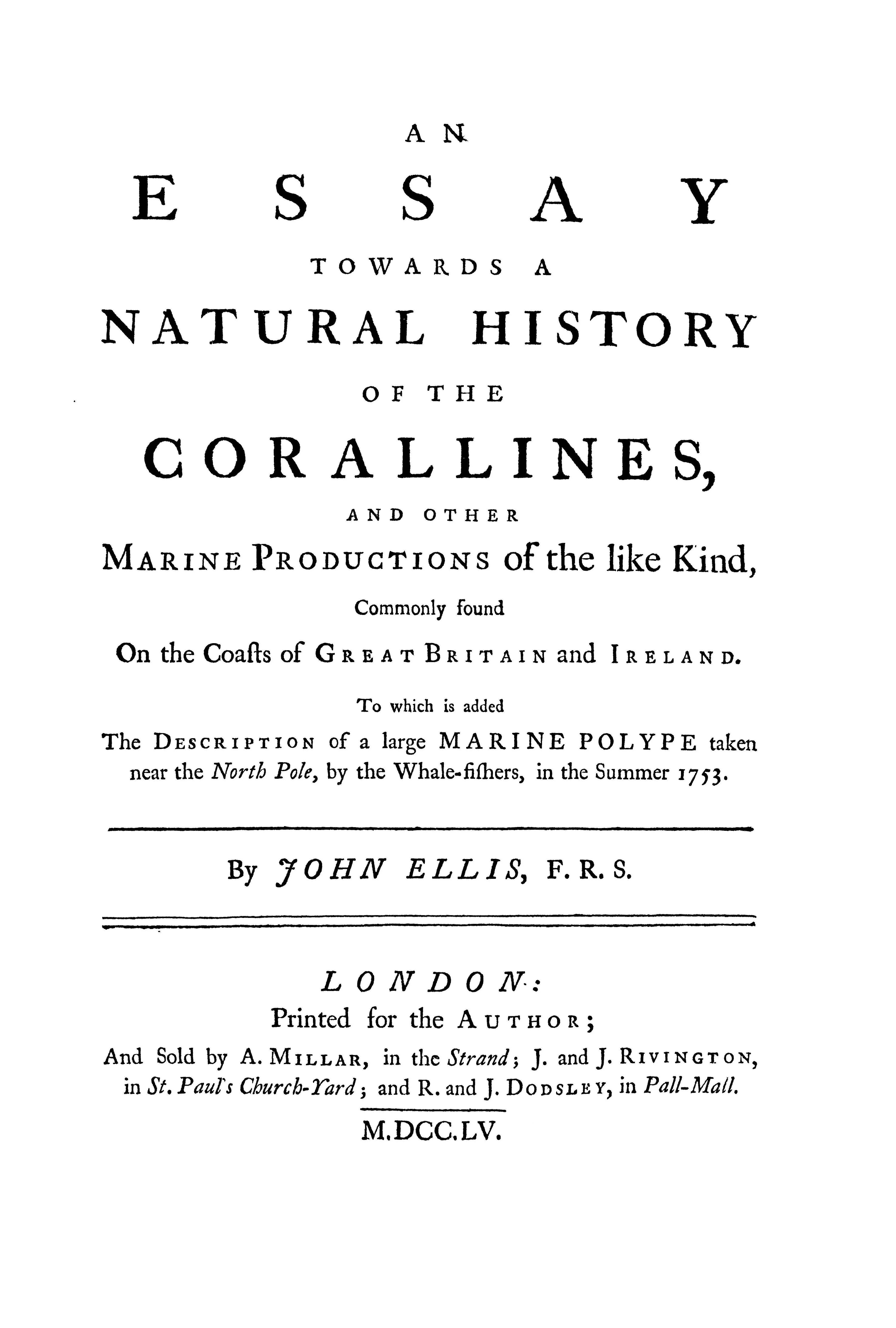 Page de titre de An essay towards a natural history of the Corallines, and other productions of the like kind de John Ellis